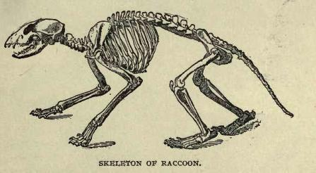 Raccoon skeleton